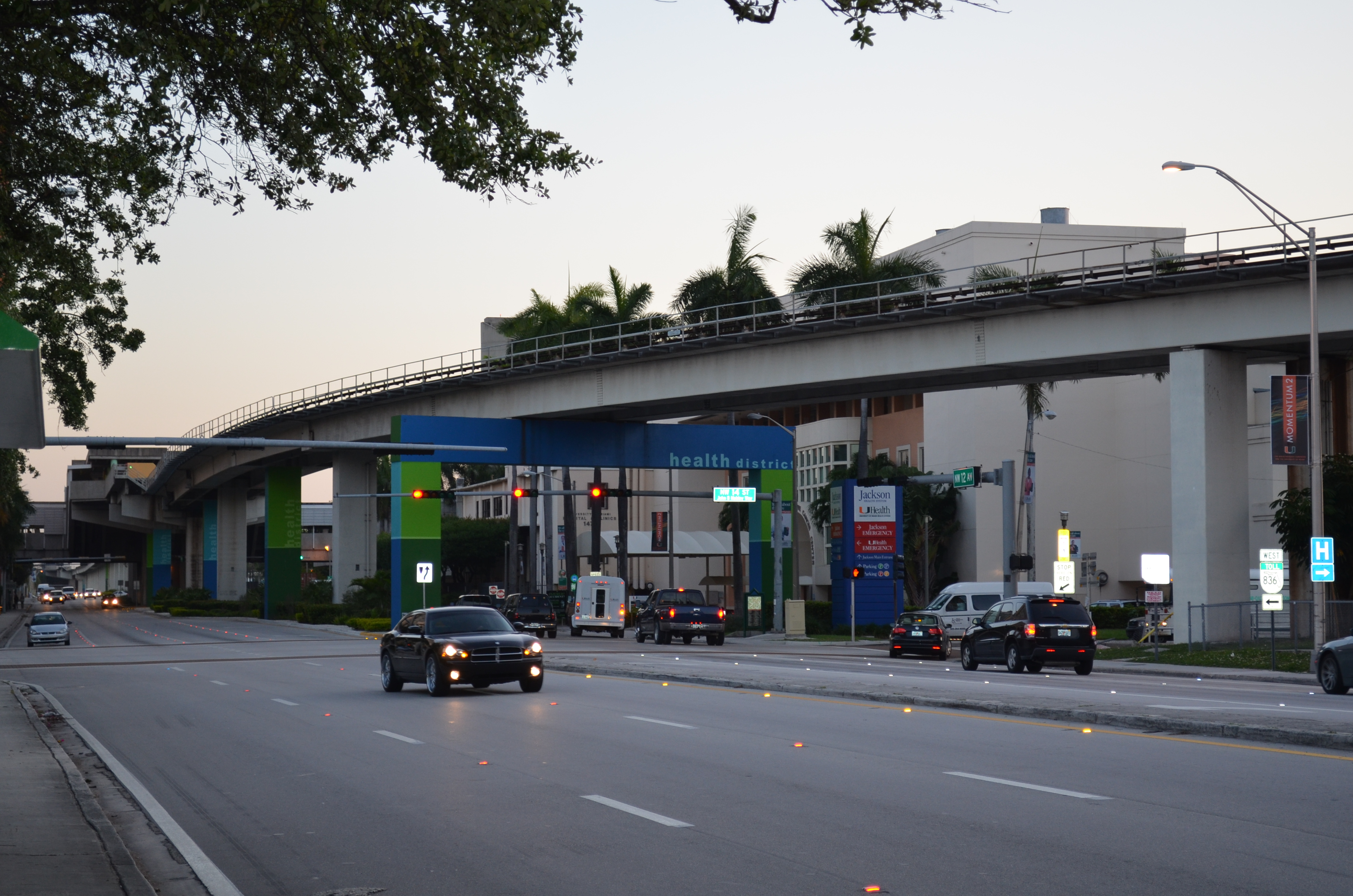 Civic Center (Miami)